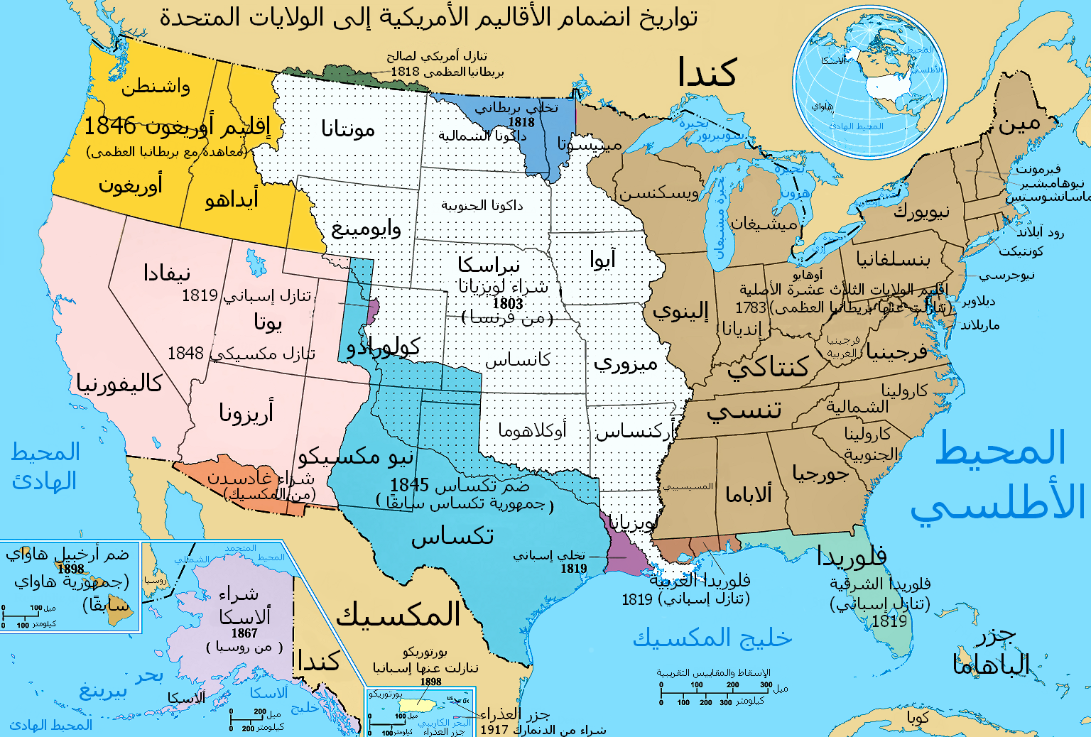 This image depicts the Territorial acquisitions of the United States, such as the Thirteen Colonies, the Louisiana Purchase, British and Spanish Cession, and so on. === Possible Errors === There is a concern that this map could have errors. For discussion, please see the talk page.